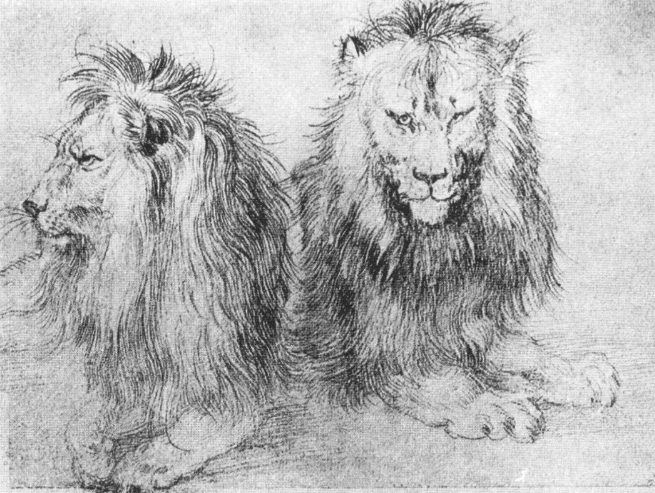 sketch of Lions